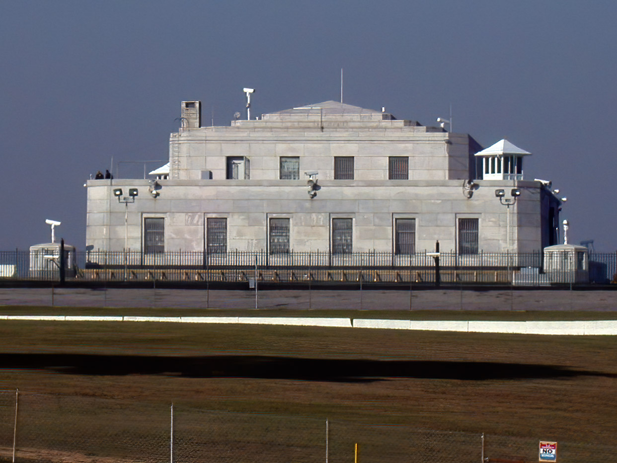 US Gold Bullion Depositiory. You can see the security - Guard Towers, Guards, Wire fences and cameras.